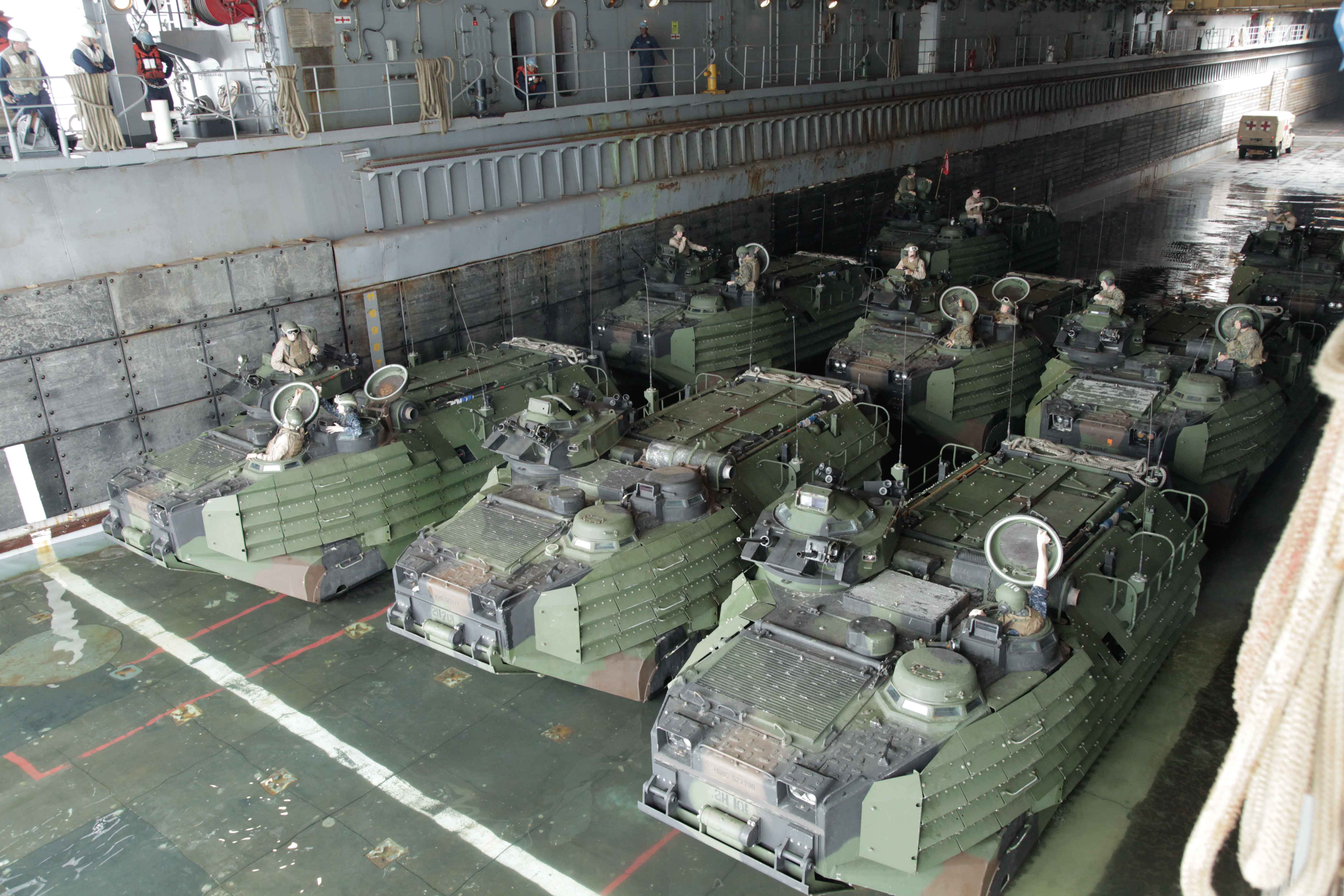 CARIBBEAN SEA (Feb. 14, 2011) Marines, operating amphibious assault vehicles (AAV) with the Security Cooperation Task Force (SCTF), prepare to debark the amphibious dock landing ship USS Gunston Hall (LSD 44) during Amphibious Southern Partnership Station 2011 (A-SPS 11). A-SPS 11 will focus on strengthening existing regional partnerships and encouraging the establishment of new relationships through the exchange of subject matter expertise.